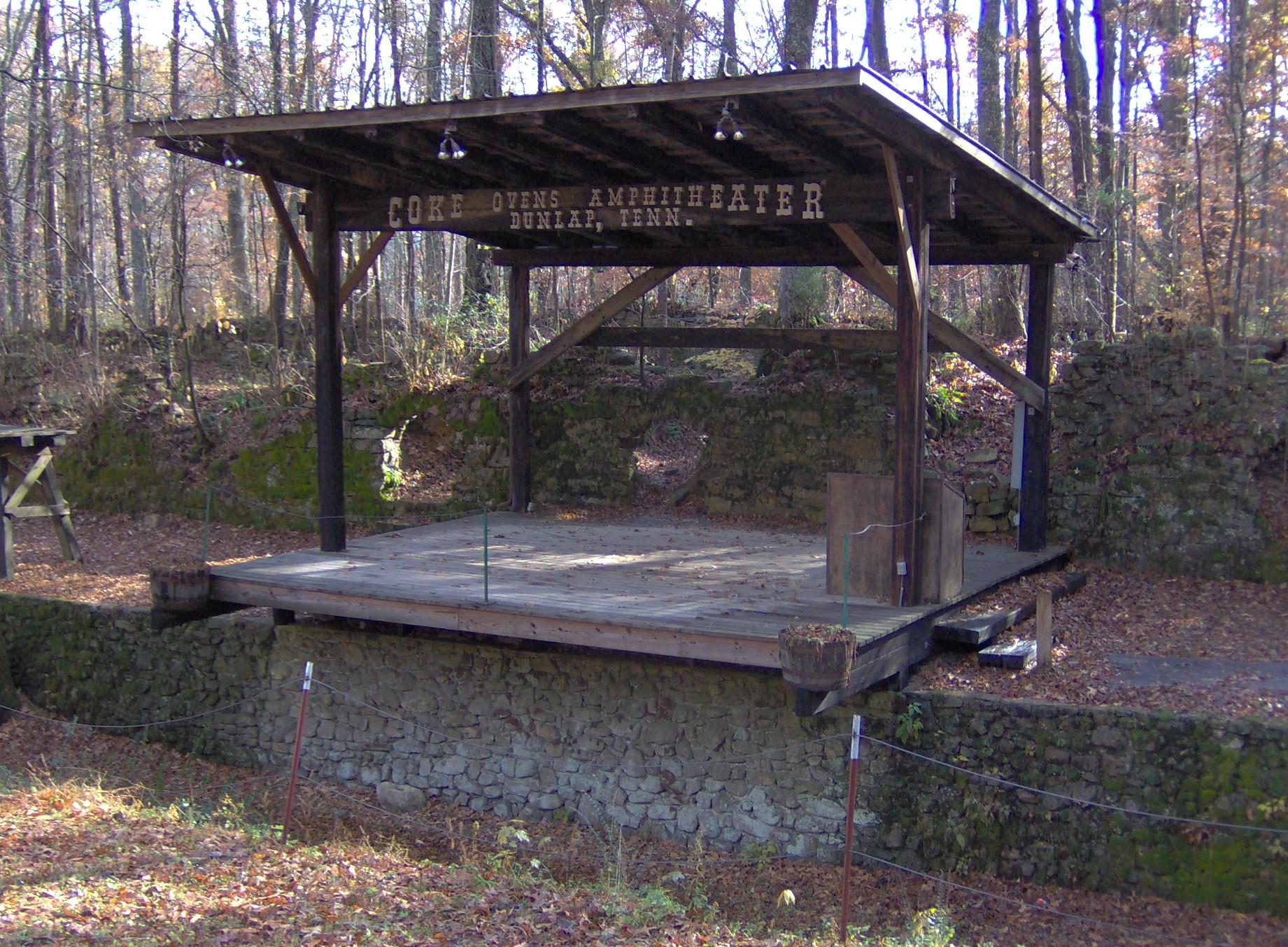 Amphitheater at Dunlap Coke Ovens Park in Dunlap, Tennessee, USA. A battery of coke ovens spans the photo behind the amphitheater. The amphitheater, built using wood from a dismantled railroad trestle, is a performance venue during the annual Coke Ovens Bluegrass Festival.